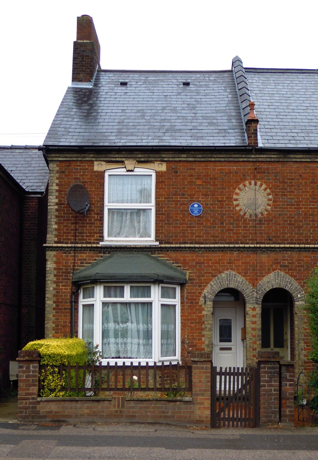 Photograph of the birthplace of Richard Stuart Walker in Fishponds Lane in Hitchin